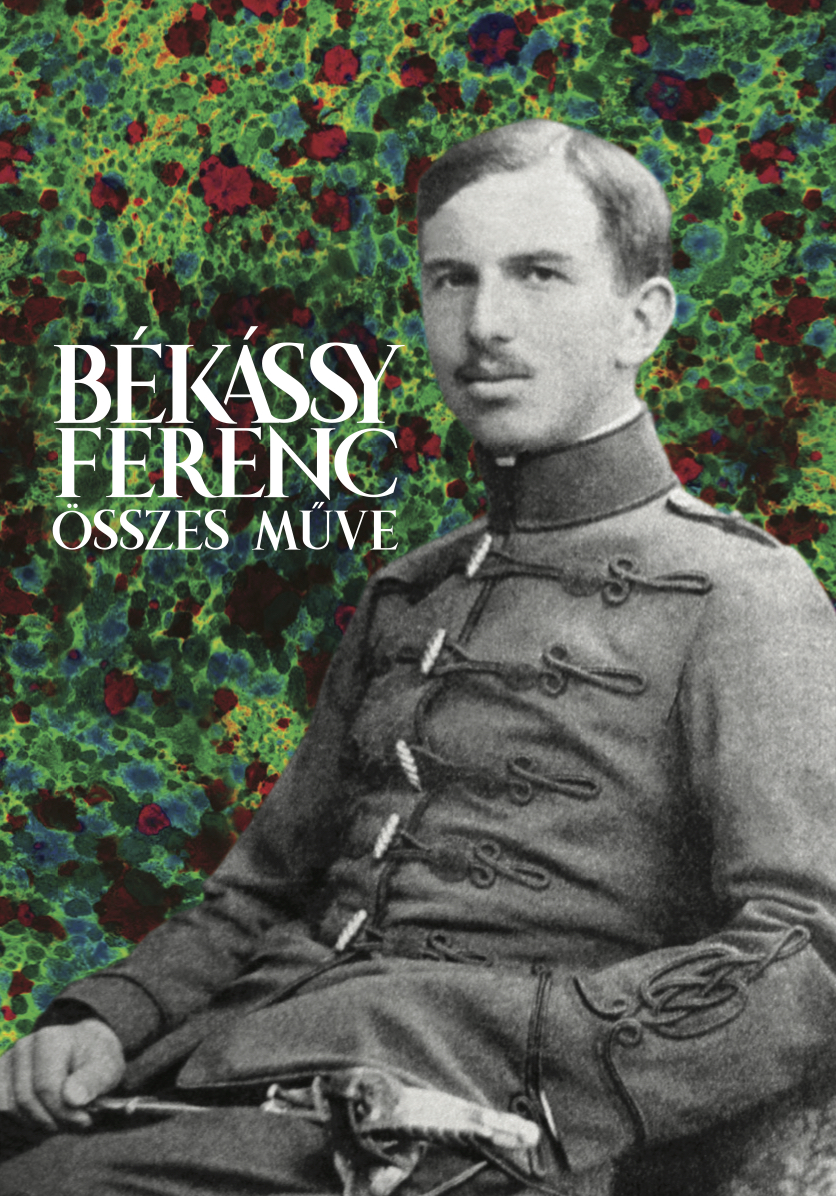 The cover of The Complete Works of Ferenc Békássy. Published in 2018.